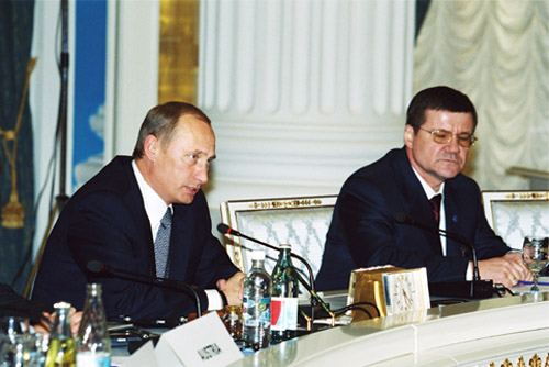 THE KREMLIN, MOSCOW. A meeting with the EU Council Justice Ministers. President Putin with Russian Minister of Justice Yury Chaika.